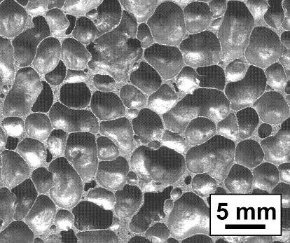 An aluminium foam produced by the Shinko Wire Company (trade name Alporas) scanned from a sectioned aluminium foam specimen by user curran2 showing the larger end of the range of cell size